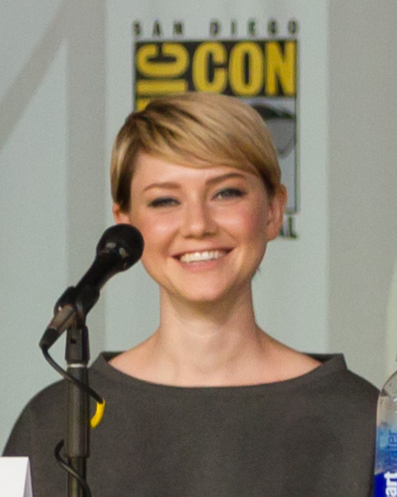 Valorie Curry on the The Following panel at the 2013 Comic-Con in San Diego, California.